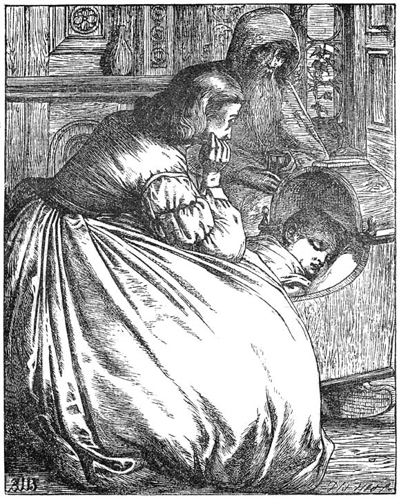 From 'Andersens Sproken en vertellingen' by Hans Christian Andersen, Titia van der Tuuk (ed.) and Simon Jacob Andriessen (trans.). Gebroeders E. & M. Cohen, Nijmegen - Arnhem. Illustrated by Alfred Walter Bayes (1832-1909) and engraved by the Dalziel Brothers (Edward Daziel, 1817-1905; George Daziel, 1815-1902).